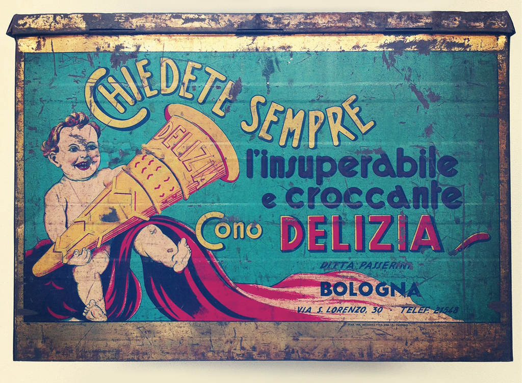 Old tin box for ice cream cone at the Gelato Museum Carpigiani - Italy